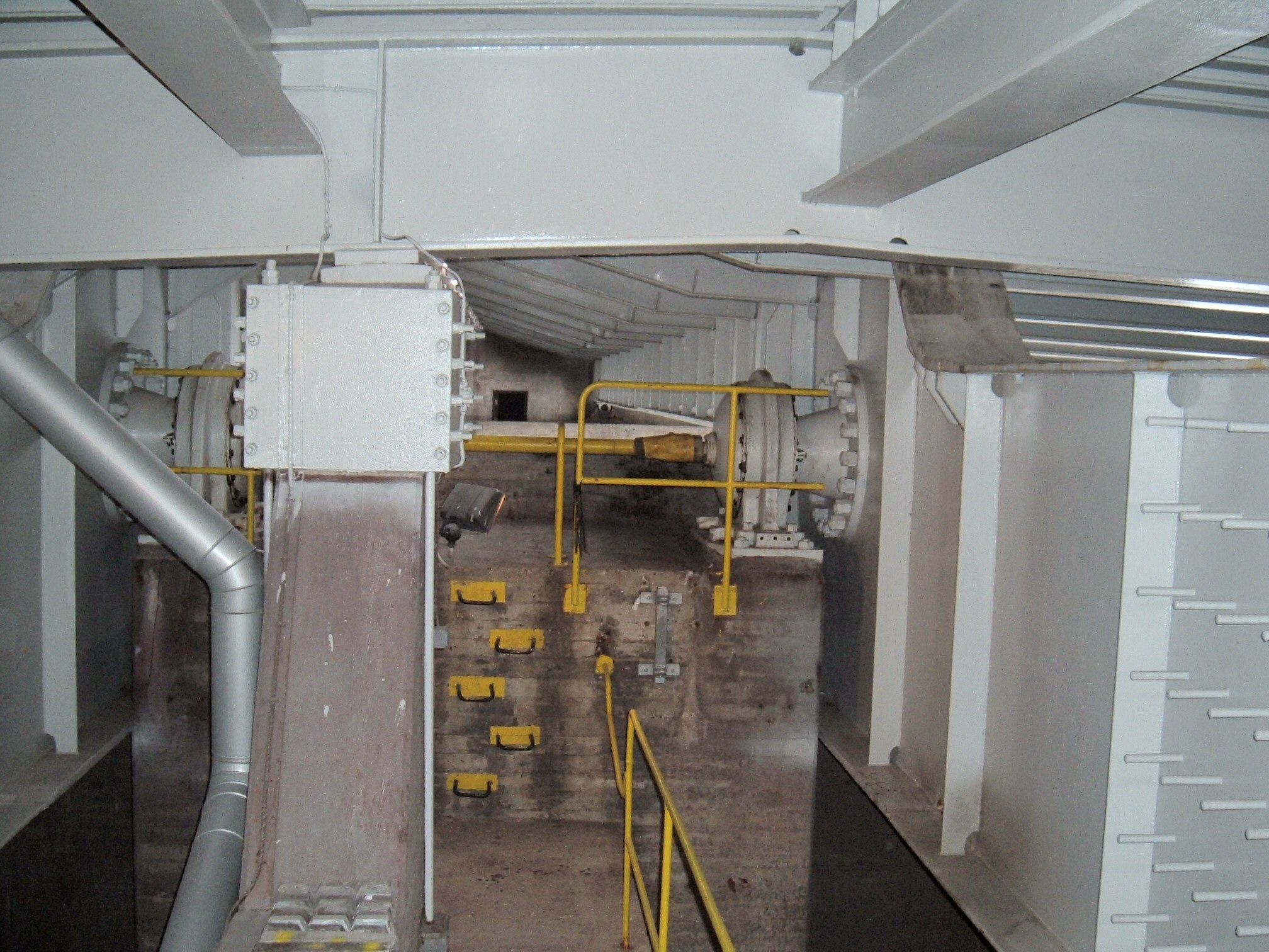 Frederick IX bridge at Nykobing Falster between the islands of Falster and Lolland in south Denmark. View underneath the bascules, between the separate road and rail sections, showing support bearings and drive shaft for raising bridge. Taken by contributor, July 2006.